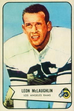 American football player Leon McLaughlin on a 1954 Bowman card.